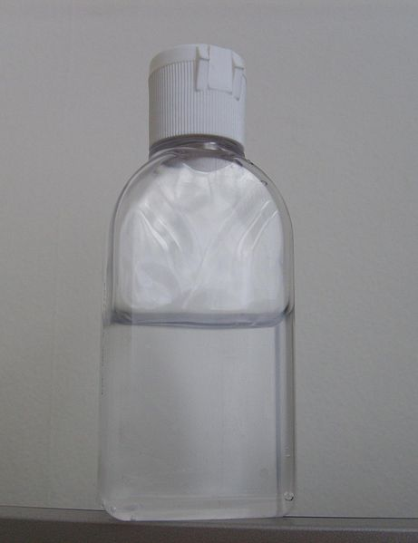 A bottle of hand sanitizer alcohol gel. In order to keep the image neutral, and not have it be perceived as advertising, the product's label has been removed and a logo or company brand is not shown.